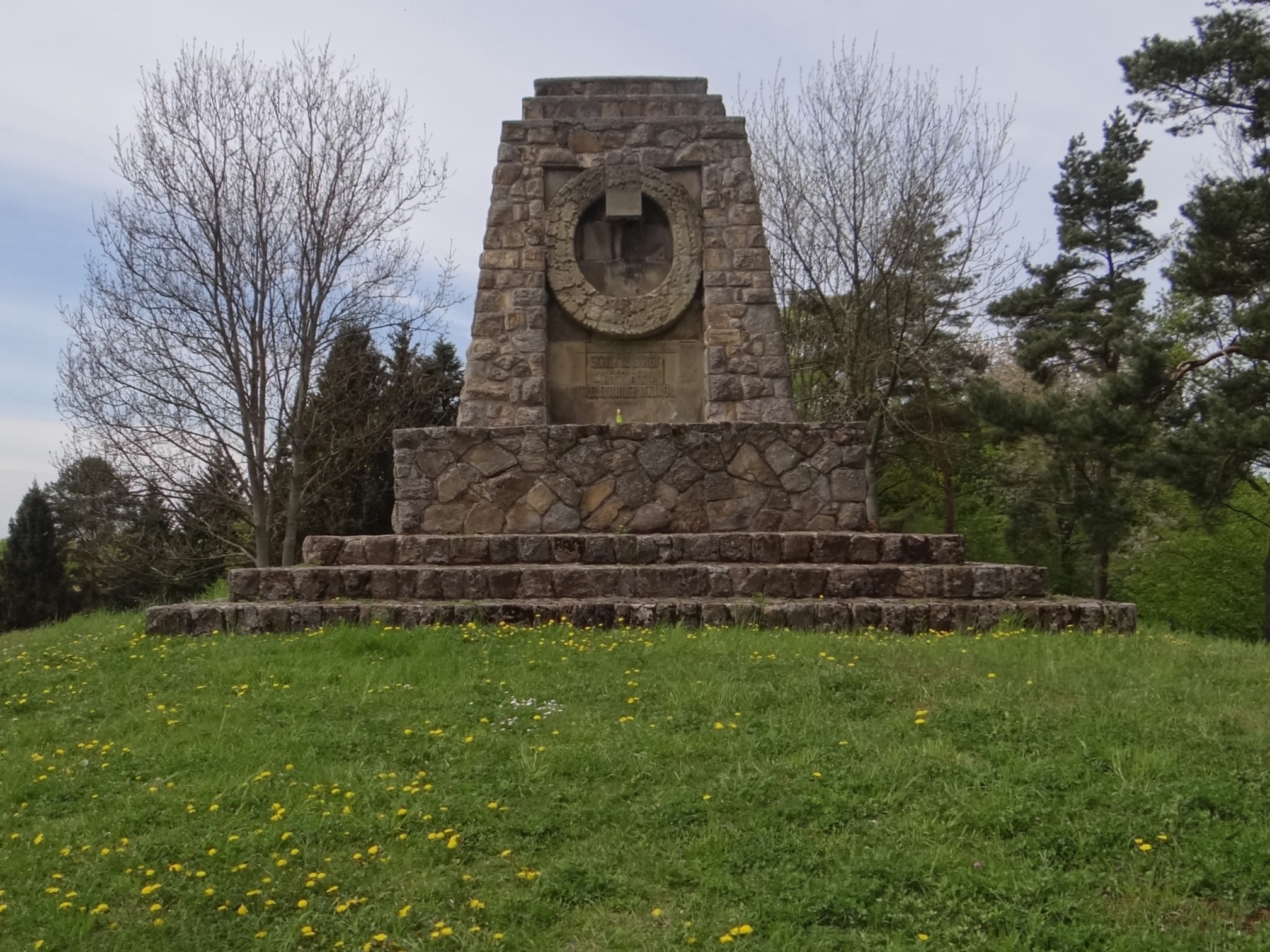 World War I Cemetery nr 185 in Lichwin